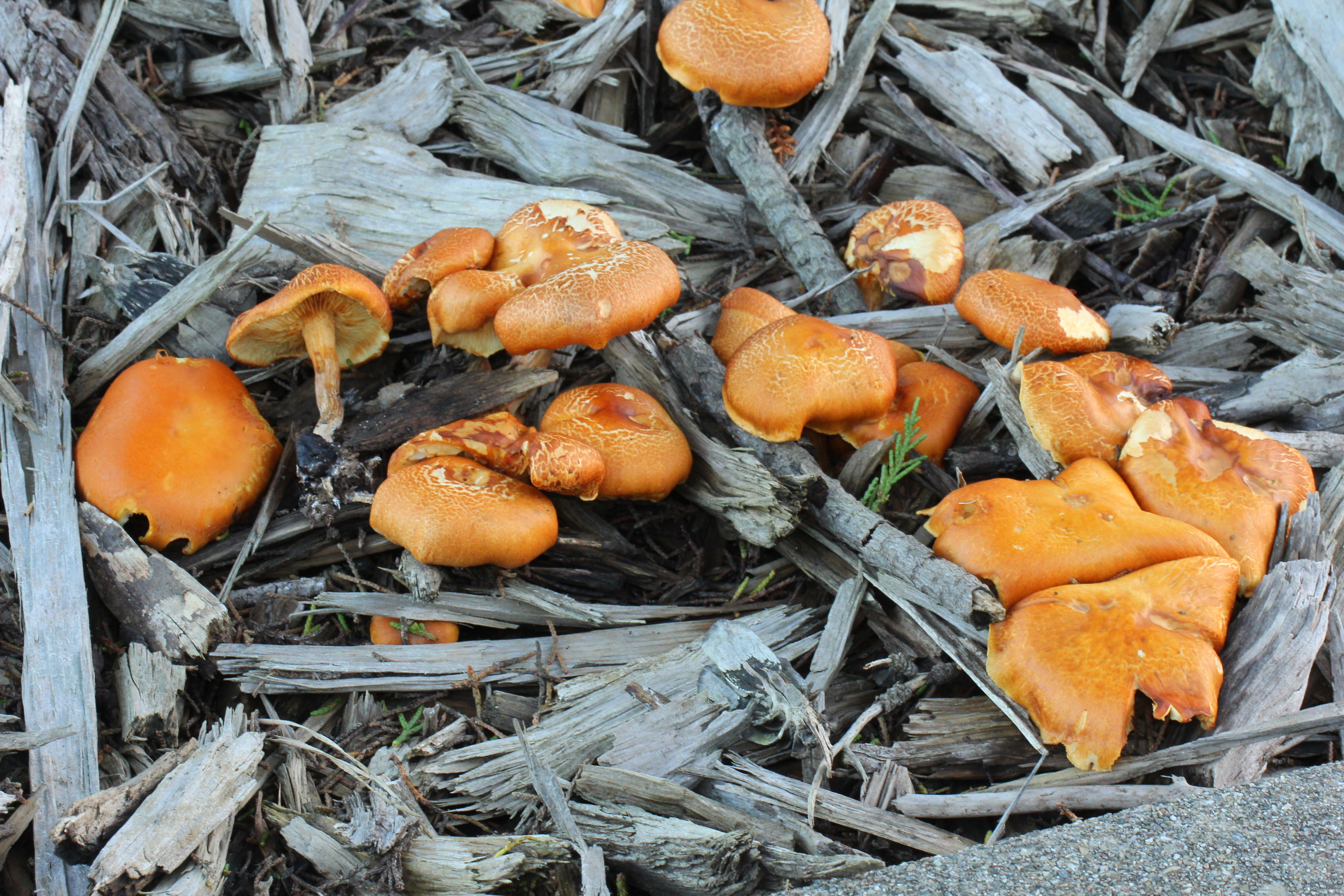 Gymnopilus echinulisporus. from Skyline Community College, San Bruno, California. For more information